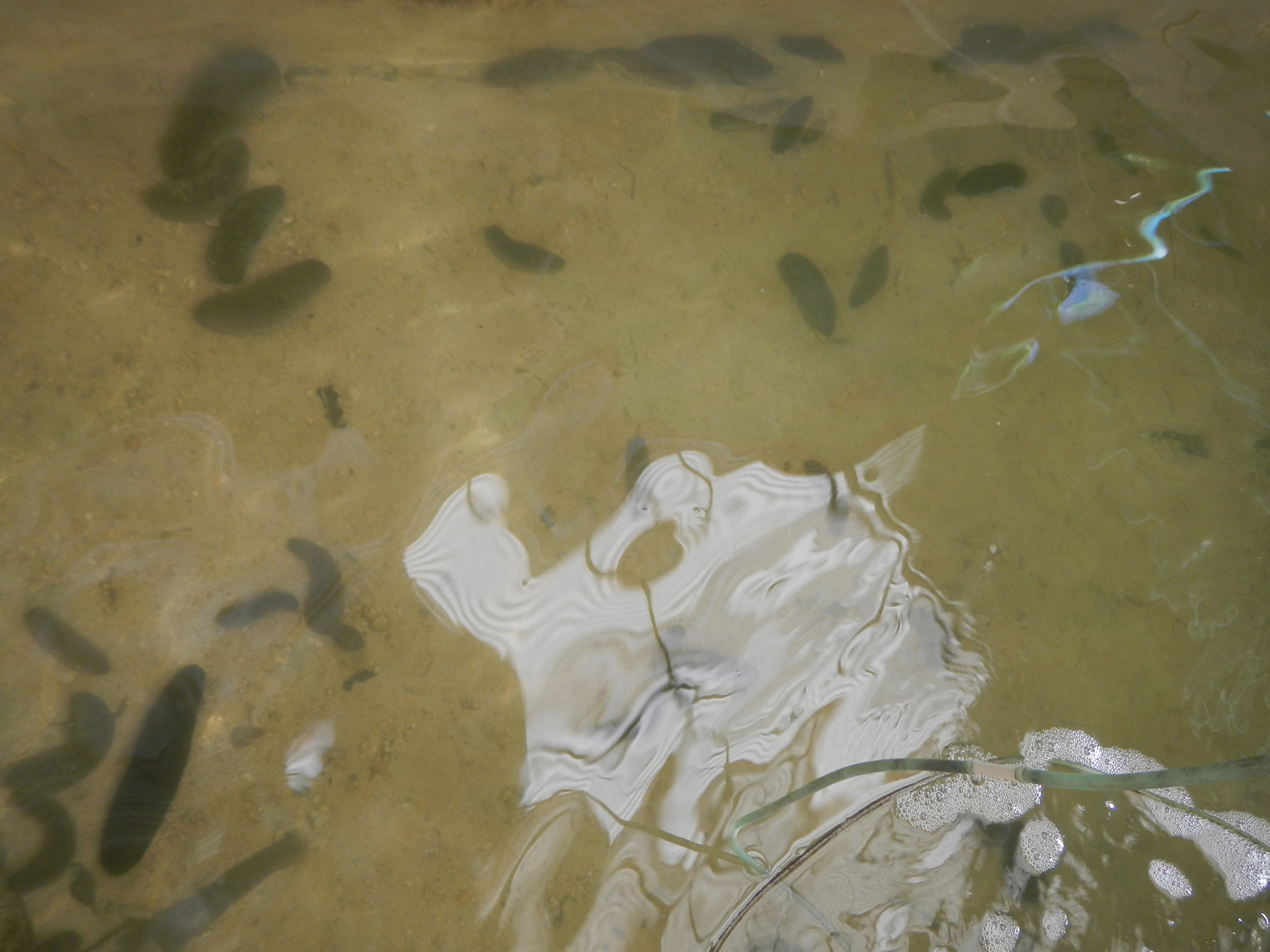 Multi-Species Fish and Invertebrate Breeding and Hatchery, (Oceanographic Marine Laboratory in Alaminos) Lucap, Alaminos, Pangasinan[1] Department of Agriculture, Bureau of Fisheries and Aquatic Resources, Regional Mariculture Technodemo Center (RMaTDeC) - April 20, 2011